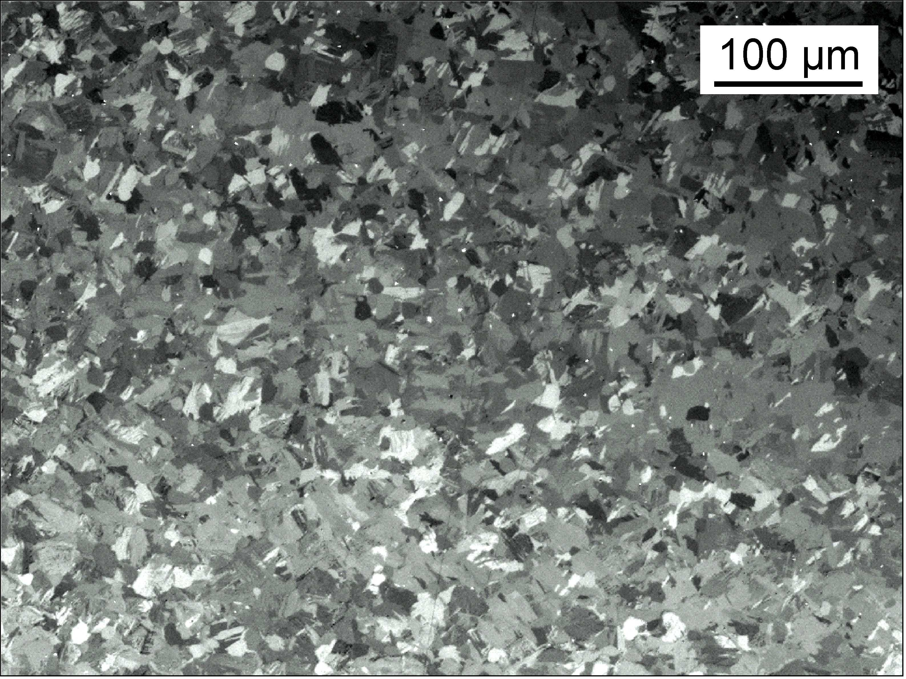 Microstructure of TiAl alloy, optical metallography